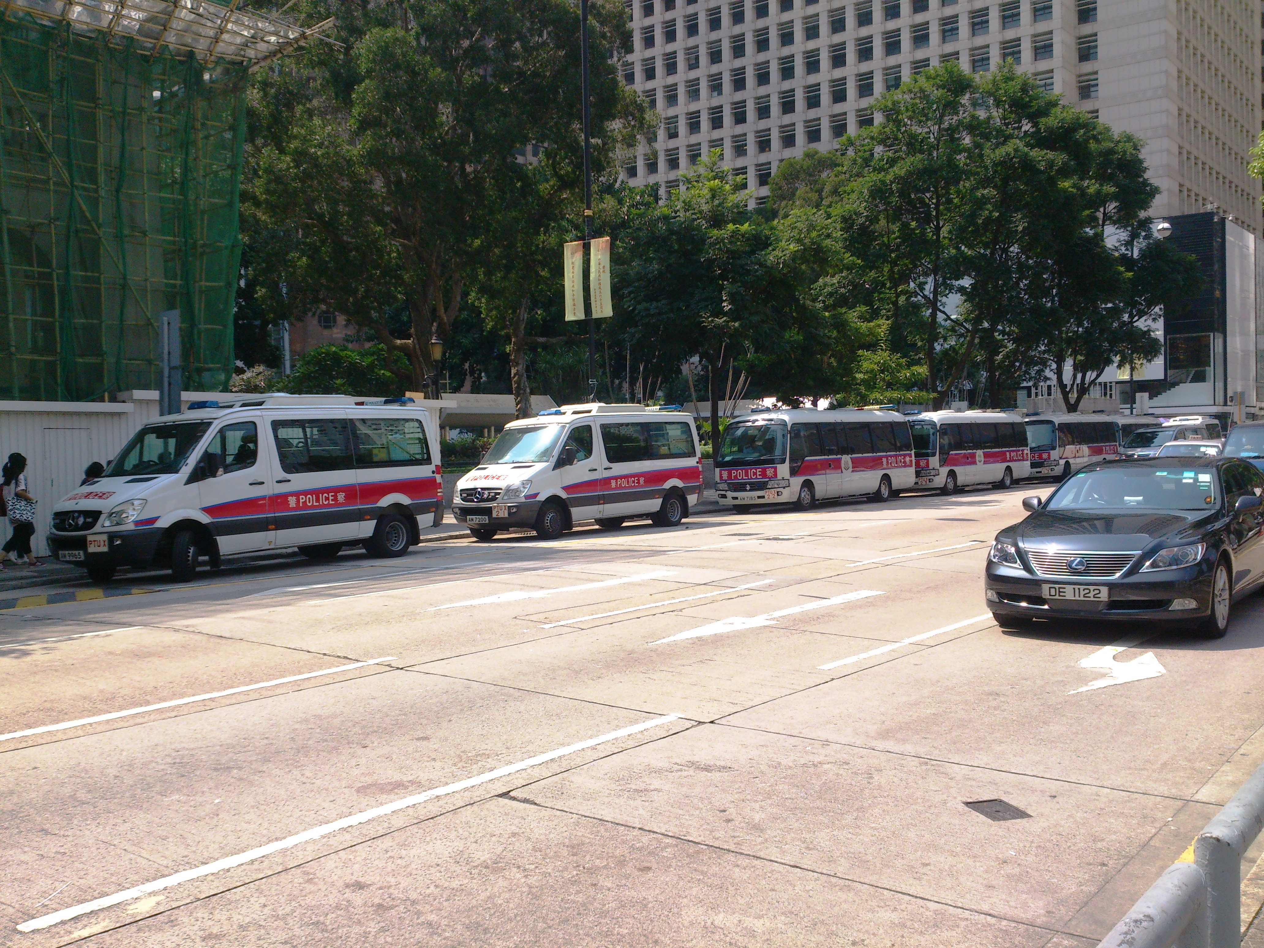 中文（香港）: Police cars on Chater Road on 2014-10-13